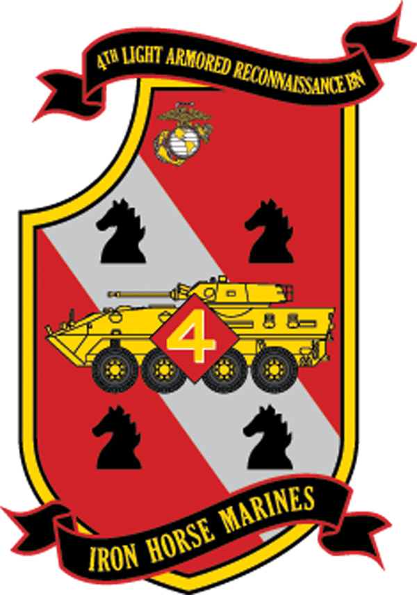 United States Marine Corps 4th Light Armored Reconnaissance Battalion insignia. Made with Photoshop.